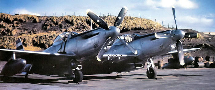 F-82E Twin Mutstang at Adak Island, Alaska, 1948